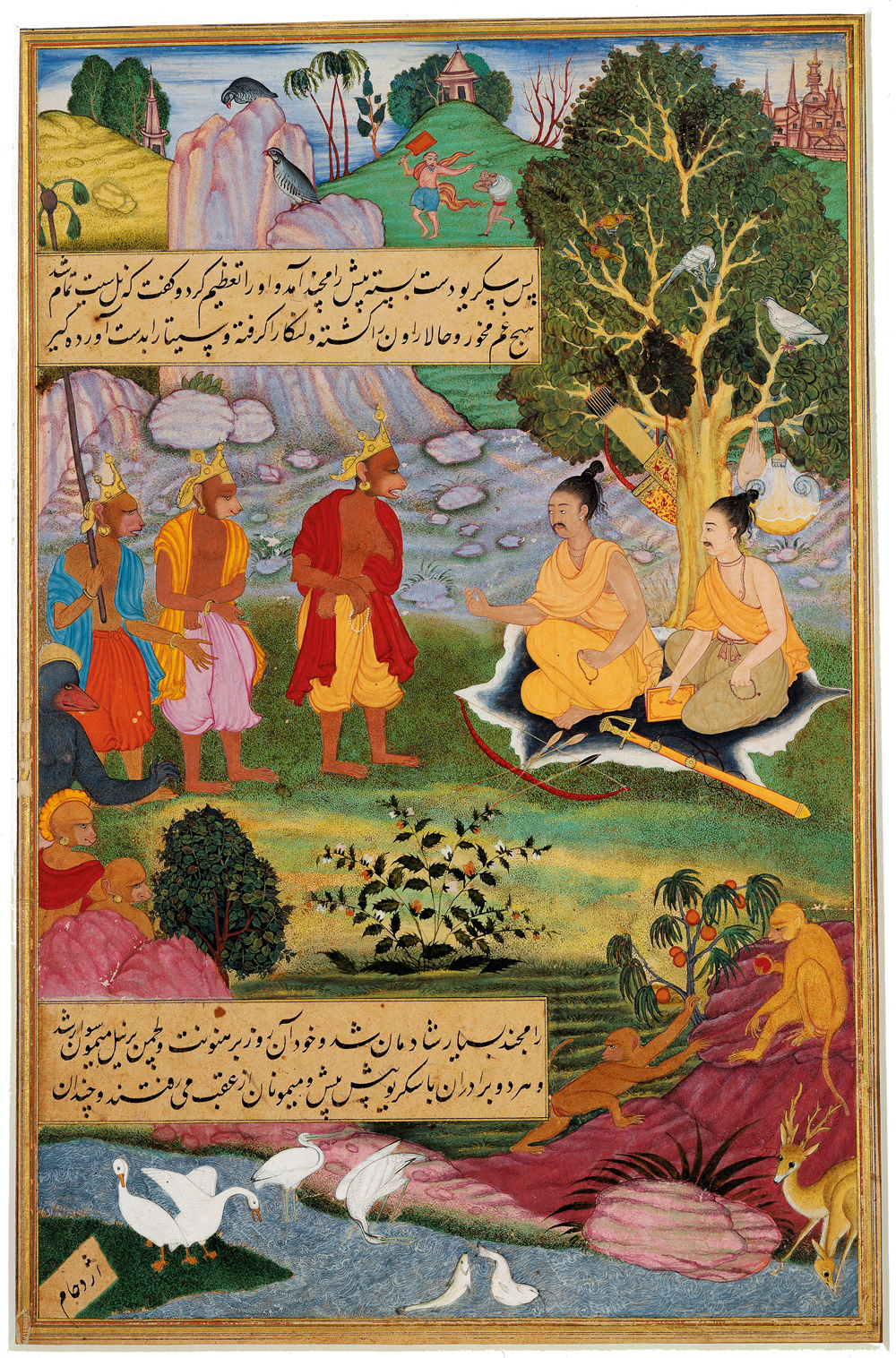 Ramayana